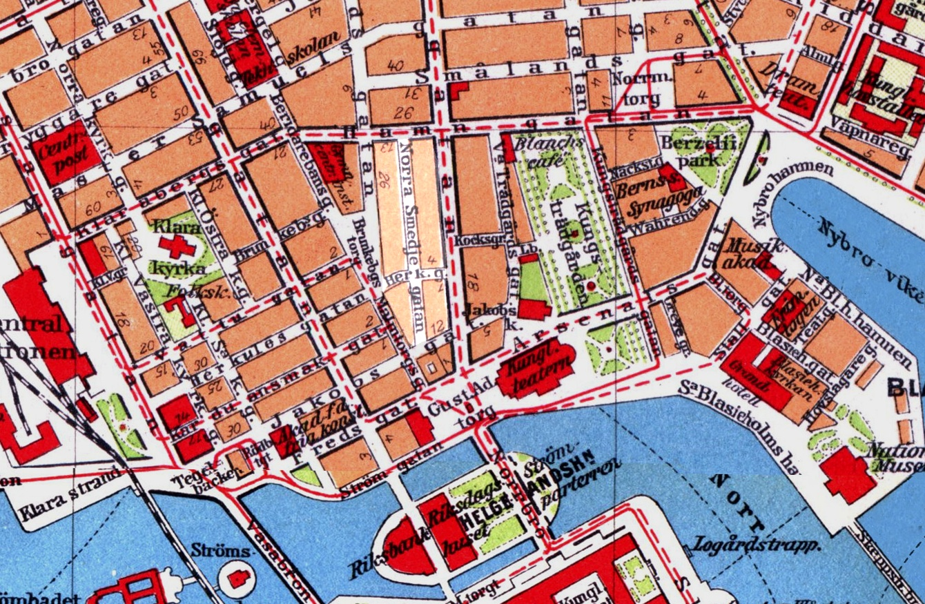 Detail of Stockholm 1928. The area where the shopping mall "Gallerian" (built 1976) is situated is indicated in brighter colours.